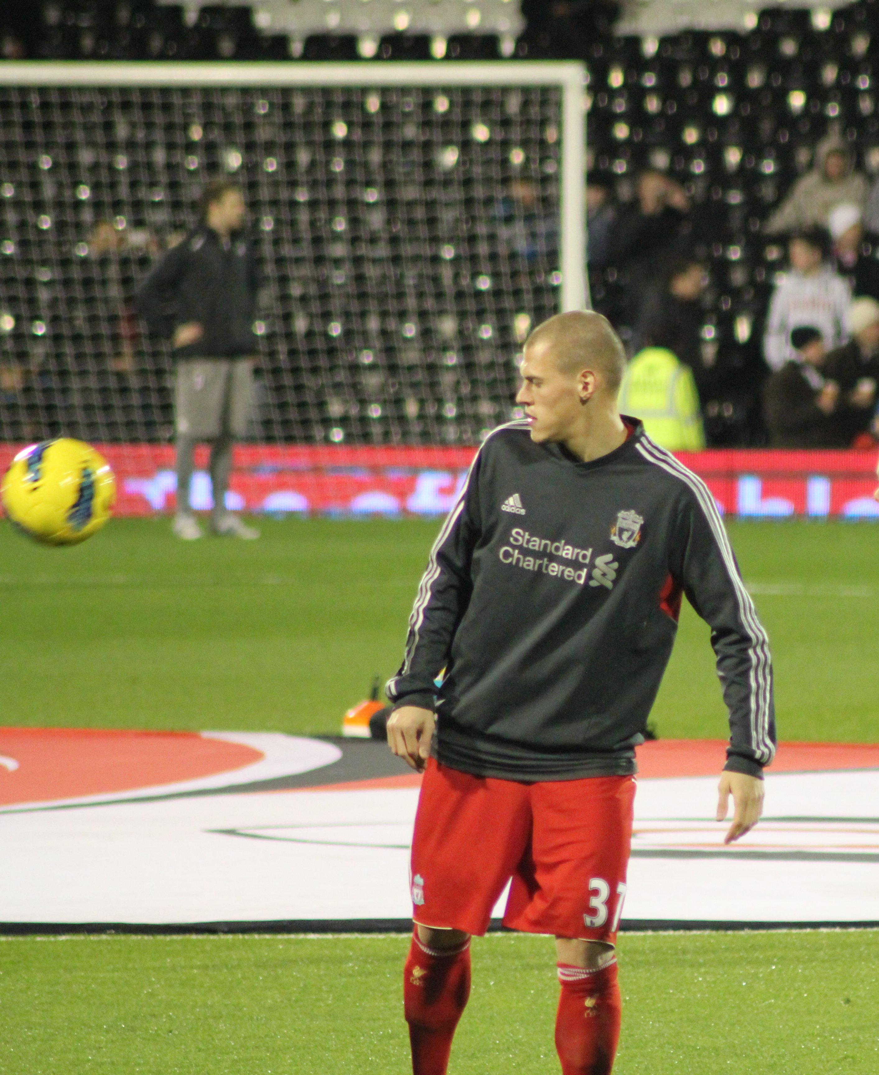 Škrtel warming up before the Fulham vs Liverpool game